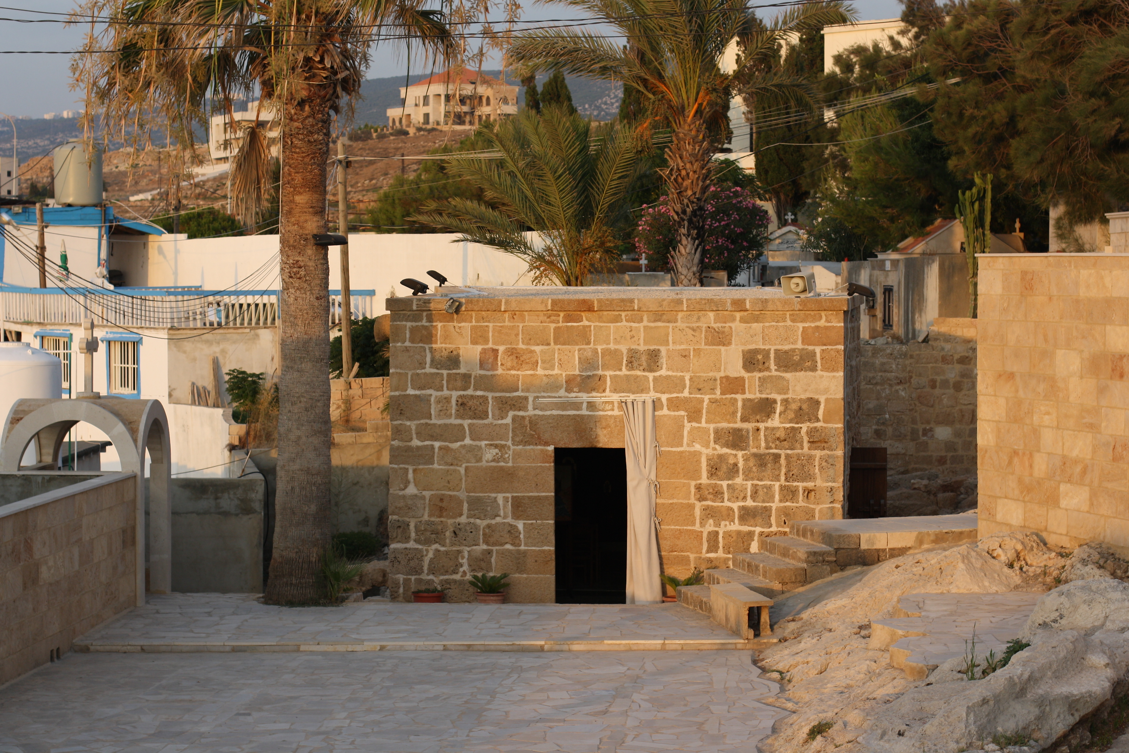 La très vielle chapelle Notre-Dame des Vents à Enfeh au Liban